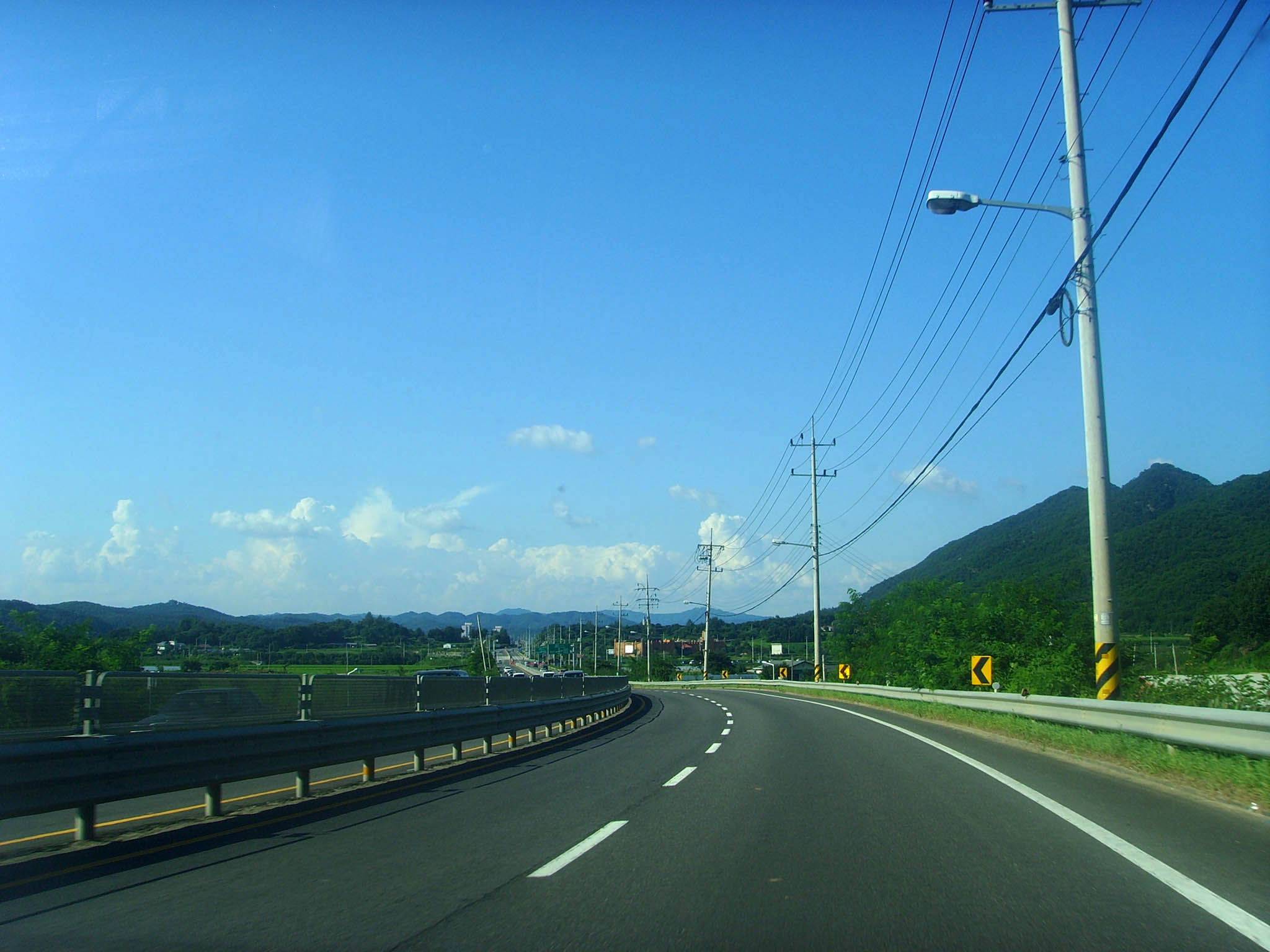 National Road #3, Near Yeoncheon